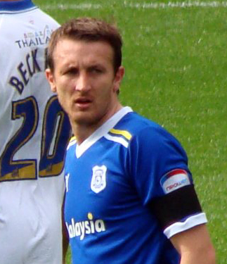 Lee Naylor (Cardiff V Leicester, Championship, Cardiff City Stadium, Cardiff, Wales). Cropped from original.